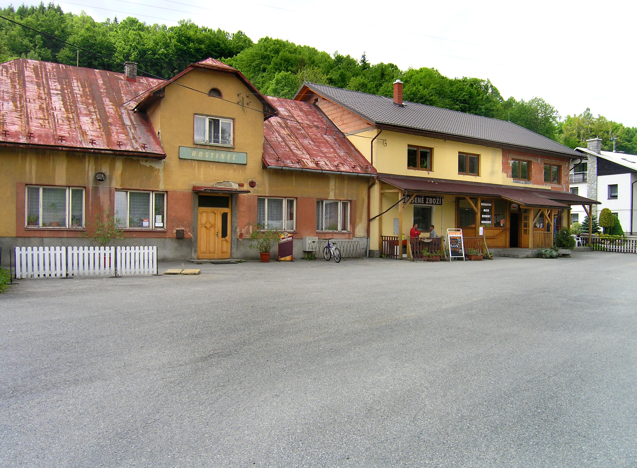 Restaurant in Prlov, Czech Republic